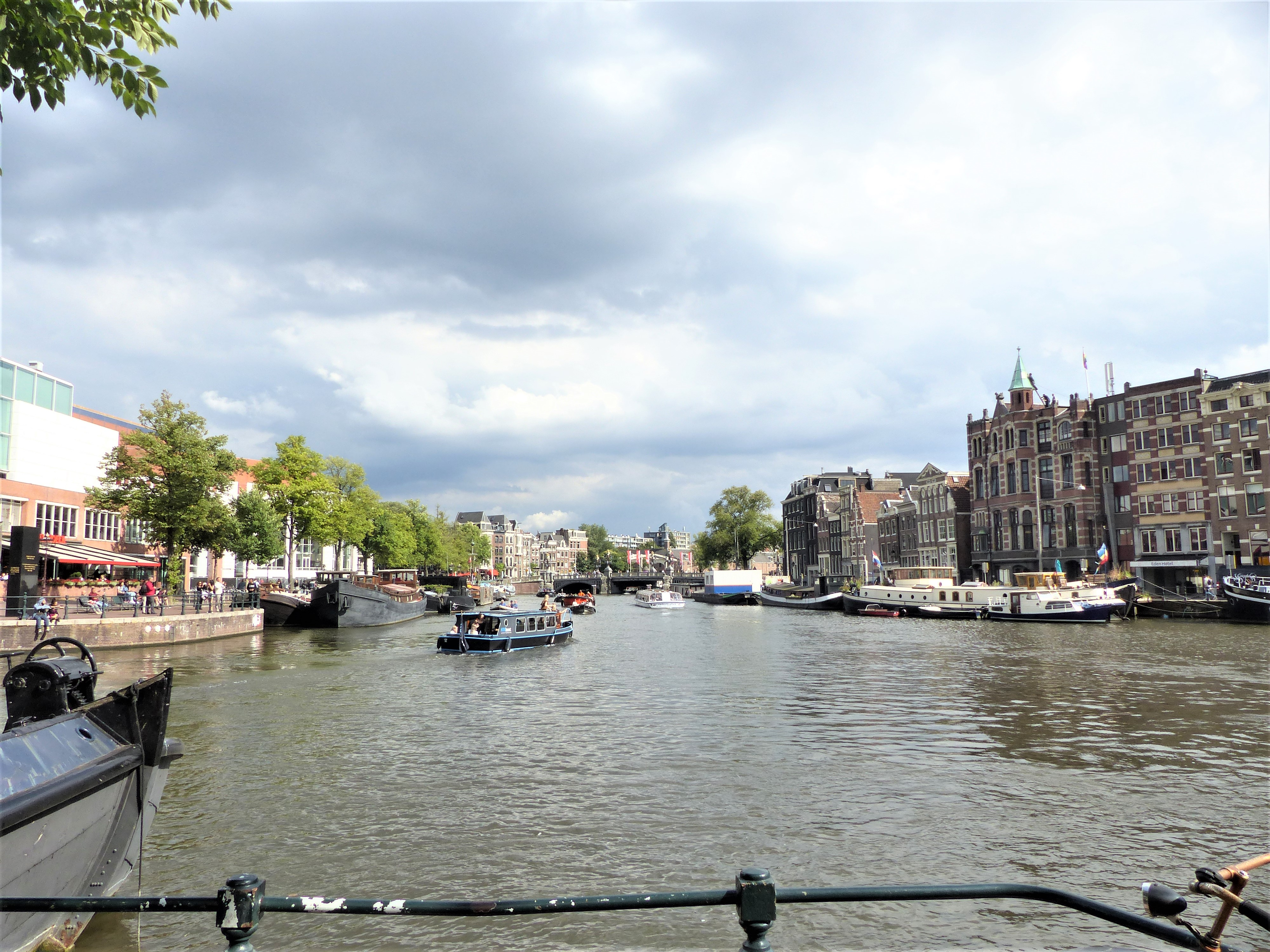 Amstel. Amsterdam on the 10th of August, 2018.